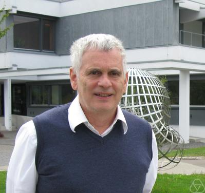 Photo of Dorian Goldfeld